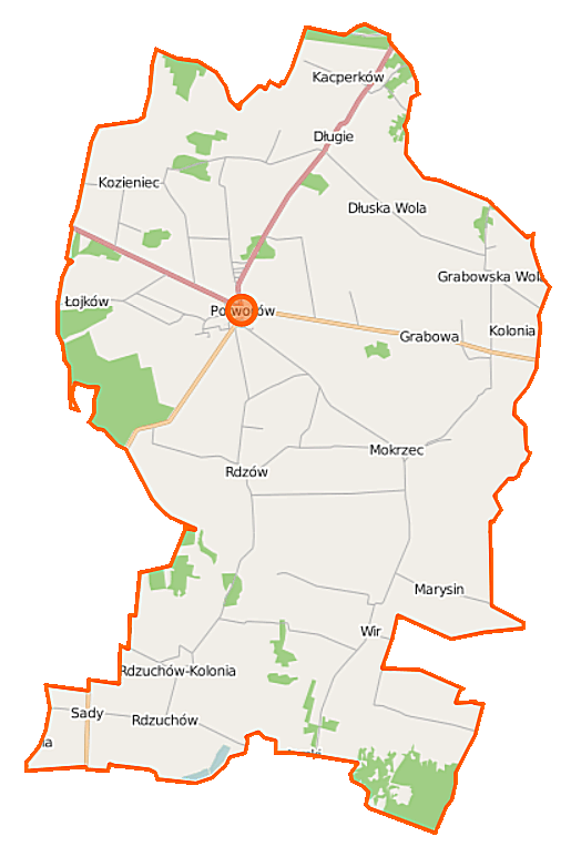 Map of Gmina Potworów, Poland This map of Potworów (gmina) was created from OpenStreetMap project data, collected by the community. This map may be incomplete, and may contain errors. Don't rely solely on it for navigation. Border coordinates51.555920.6622←↕→20.803651.4236